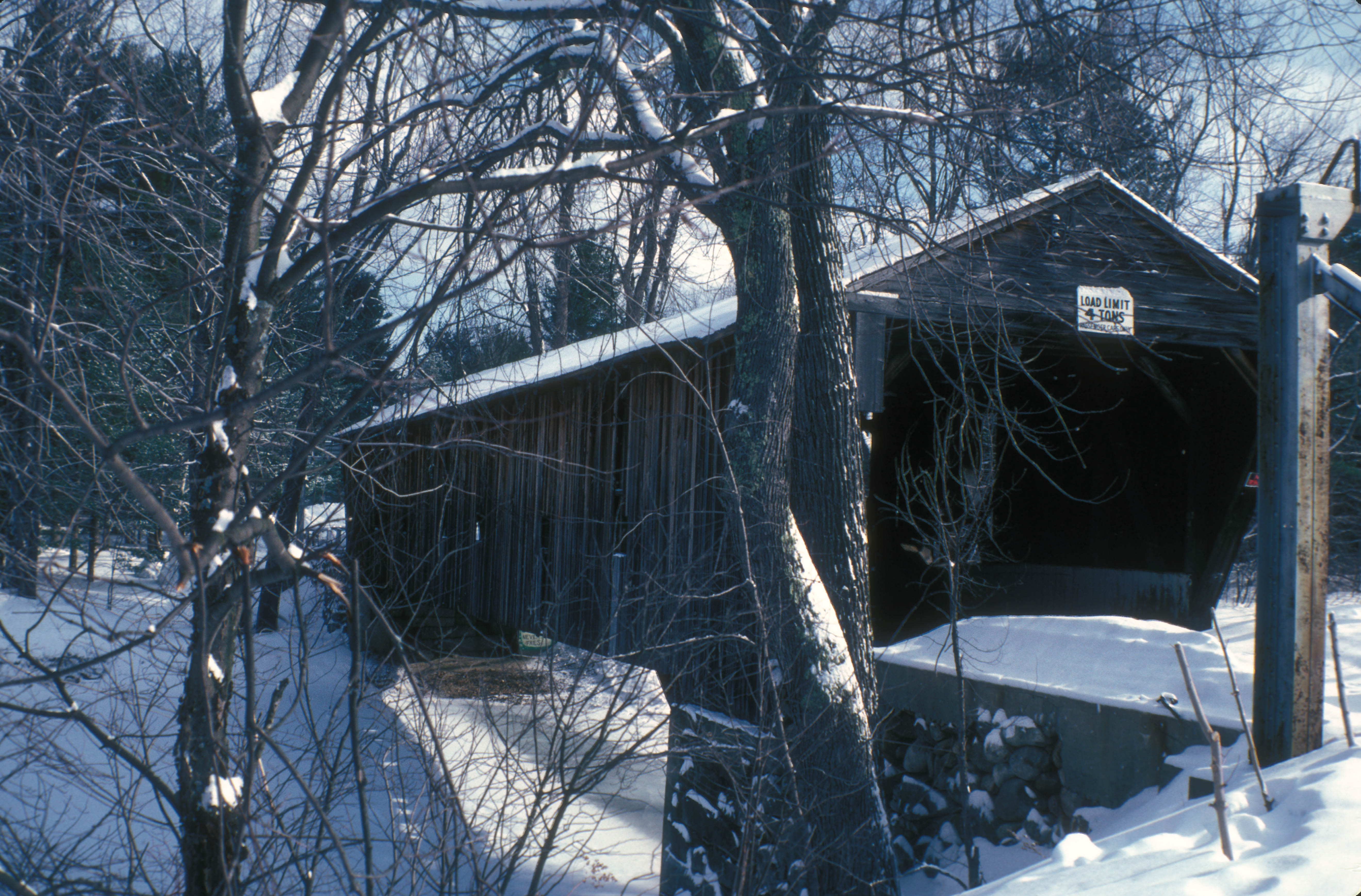 NEAR WEST OSSIPEE; CIRCA 1870; 144’ PADDLEFORD & ARCH OVER BEARCAMP RIVER (Carroll County, New Hampshire).